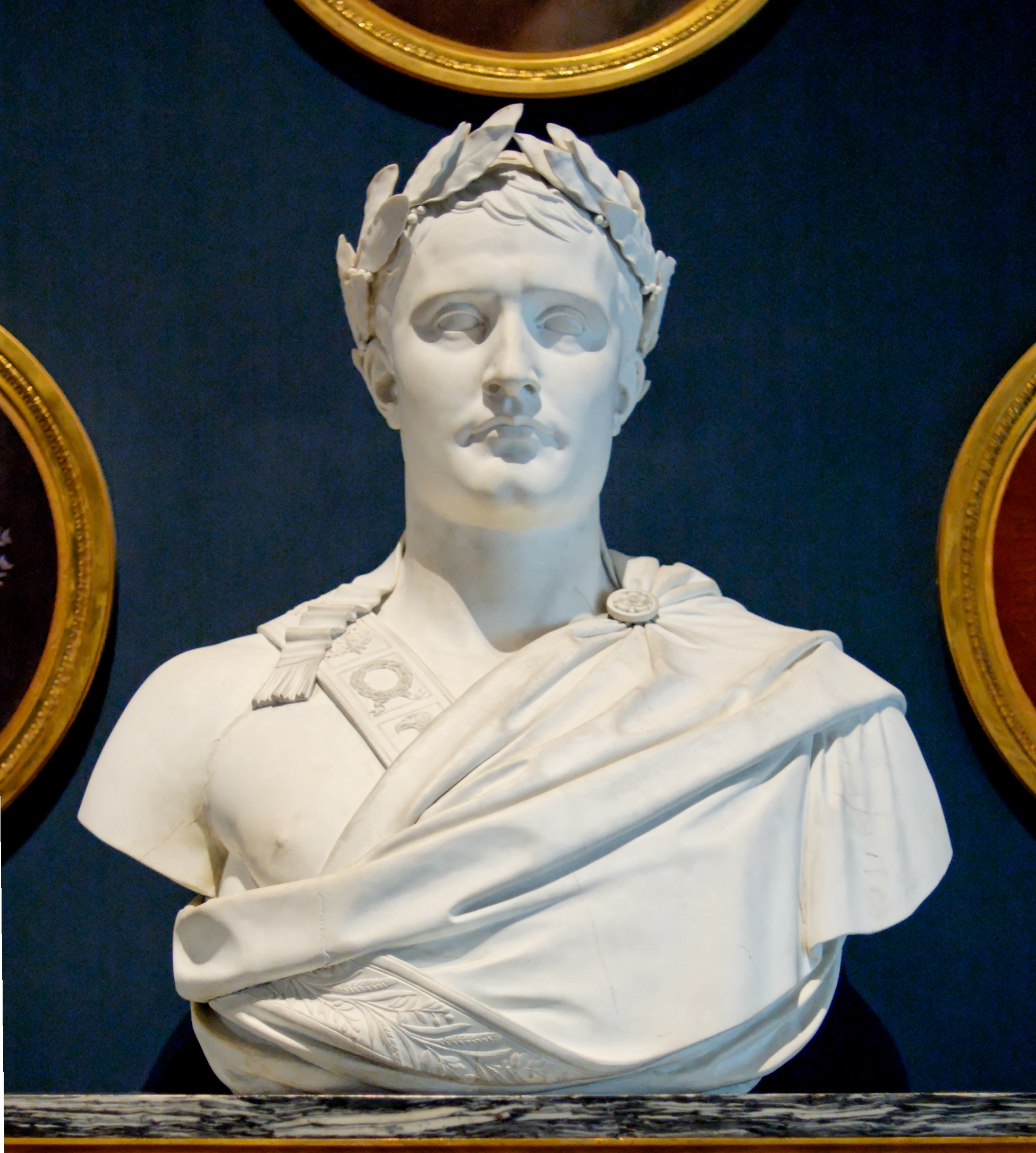 Bust of Emperor Napoleon I. Biscuit, 1811.